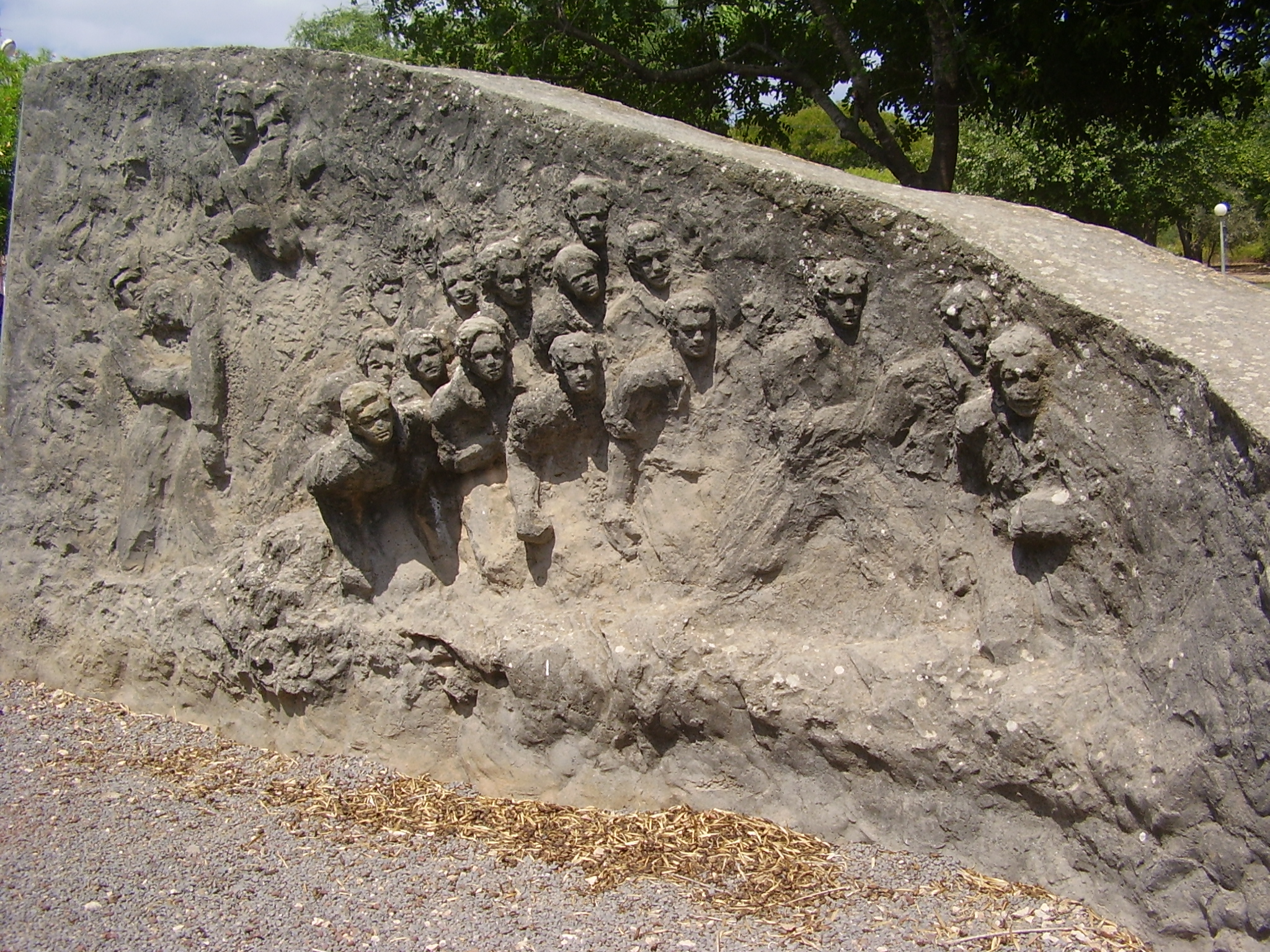 War memorial by Batia Lychansky in Kibbutz Bet-Keshet